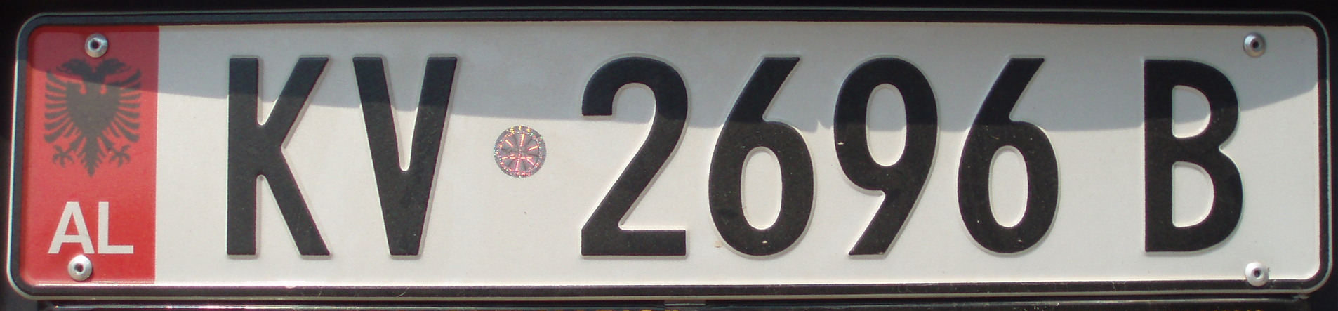 license plate of Kuçova, Albania